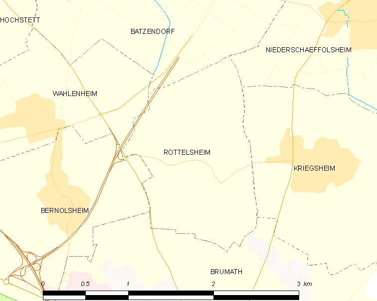 Map of French municipality